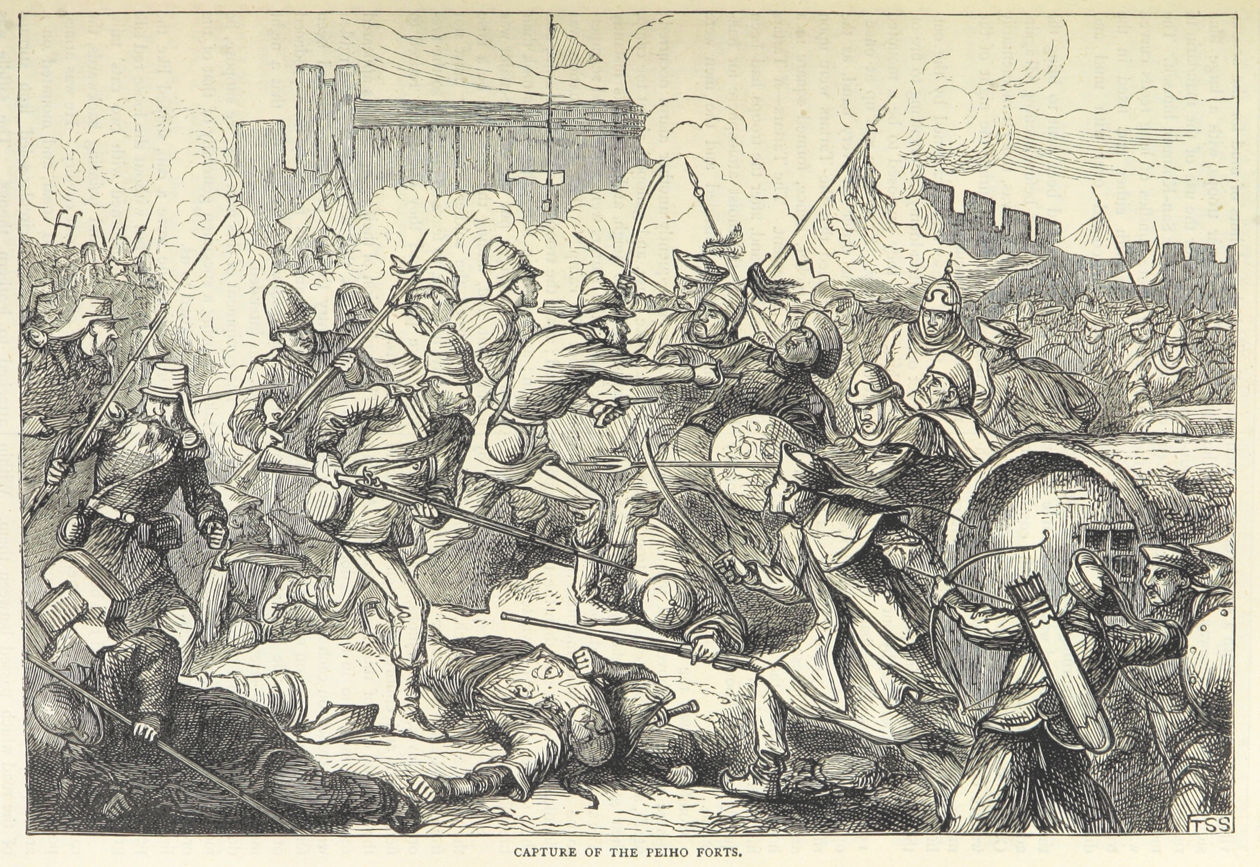 A depiction of the 1860 Battle of Taku Forts, also called Battle of the Peiho Forts.